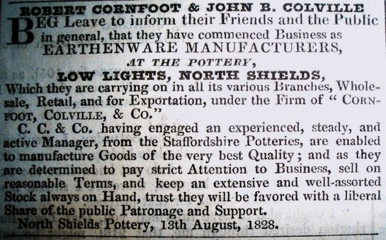 Newspaper advert photographed by me.